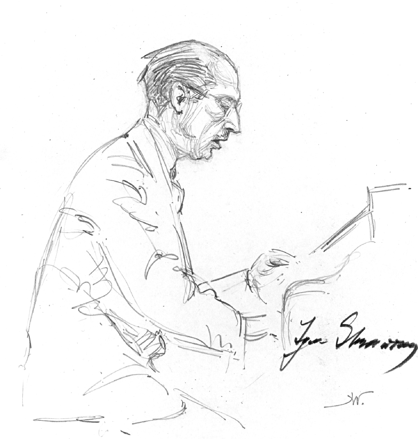 Igor Stravinsky playing the Capriccio for Piano and Orchestra pencil on paper 16.8 x 22.8 cm cropped to 16.8 x 17.6 cm signed l.r.: HW signed by the performer l.r.: Igor Strawinsky Palais de Beaux-Arts in Brussels, 14 December 1930